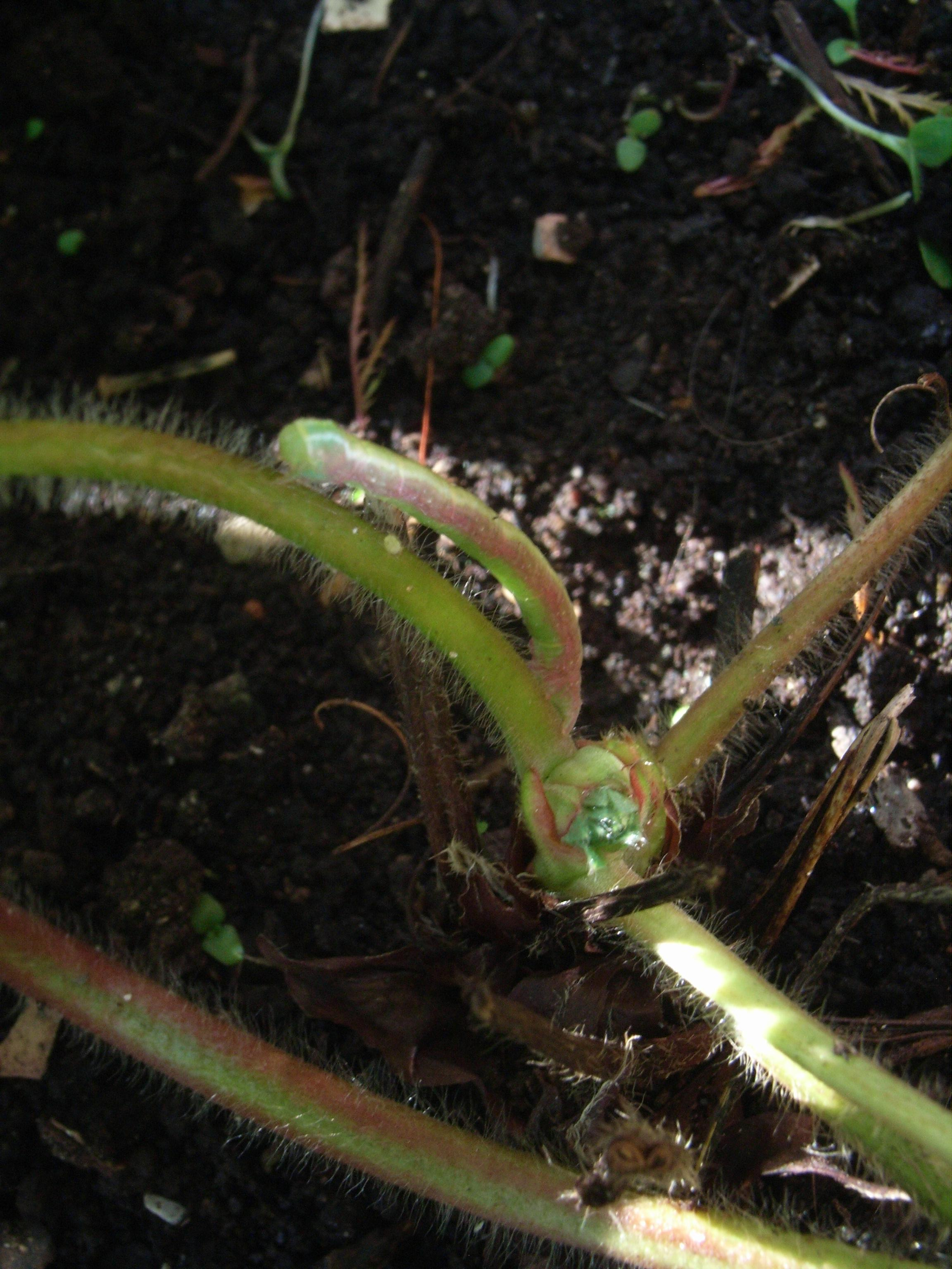 Chloroclysta truncata larva Co. Antrim Ireland.The hairless larva is green with a pink stripe, a perfect match for the strawberry leaf petioles.The caterpillar is curved head up,claspers down. Earlier it was in a loop resembling an unfurling petiole. See a more distant view hereFile:ChloroclystaTruncataLarva (3).jpg Note Protective resemblance. Geometrid caterpillars do proceed in by looping their slender bodies. Caterpillars of moths in most other families have five pairs of false legs or claspers, in Geometridae there are two pairs, which are close together at the end of the body. When the caterpillars moves, it clings very firmly by the six true legs on the segments close to the headand loosening the grasp of the claspers at the hind end.The claspers are then drawn close to the true legs,arching the body between into a loop. The claspers are then grip tightly to the stem on which the caterpillar is moving, and the body is straightened again so as to find a fresh foothold for the true legs.The movement is smoot and can be fast. Many geometrid caterpillars spend much time stretched out at full length with the body motionless and rigid and at an angle to the twig or leaf looking like a short or broken twig. Their skins are not hairy and the colours (variously brown,yellow, green and grey) resemble the food plant . Some are have bud-like knobs or scars like bud scars, others are withered or furrowed like the bark of branches or twigs